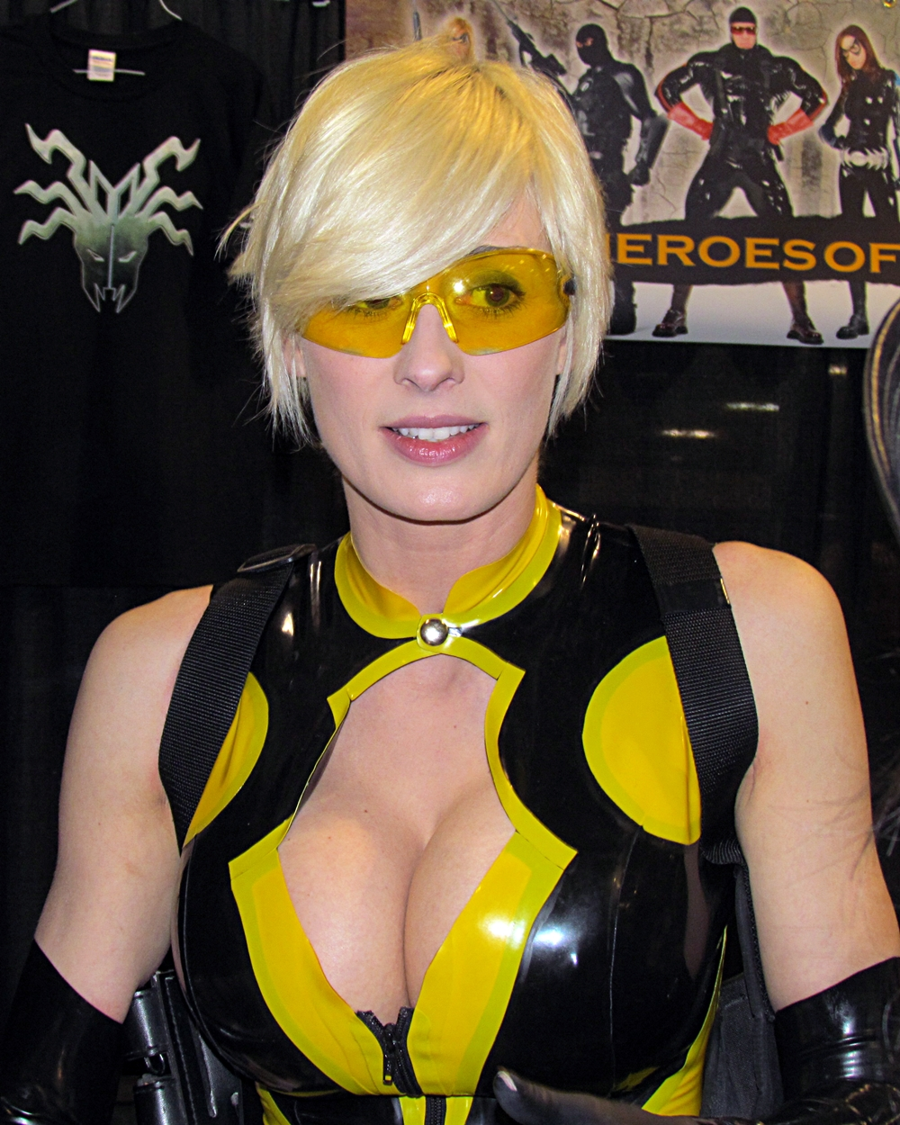 Marie-Claude Bourbonnais is a French-Canadian model and actress. Hornet has a checkered past and ruthless ambition. Heroes of the North is a transmedia group of Canadian superheroes. Their story is told through live-action web episodes, comic books, and universe related websites. Photo taken at the Calgary Comic and Entertainment Expo, BMO Centre, Calgary, Alberta, Canada.